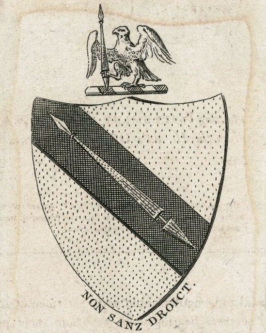 Cropped image of engraved print of Shakespeare's coat of arms, printed for John Bell, London, 1787. Blazon: Or, on a bend sable, a [tilting] spear of the field headed argent.[1]